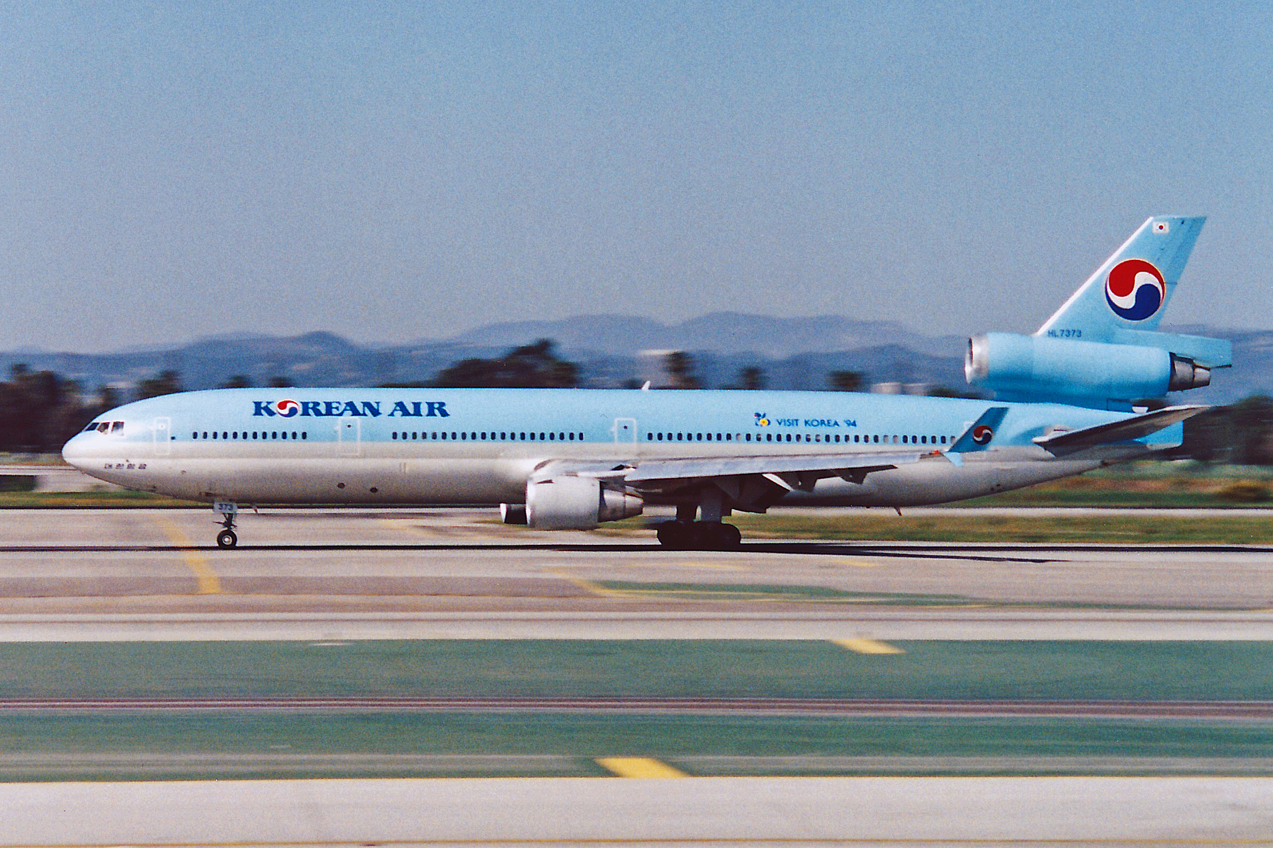 This aircraft crashed in Shanghai, China on 15 April 1999.